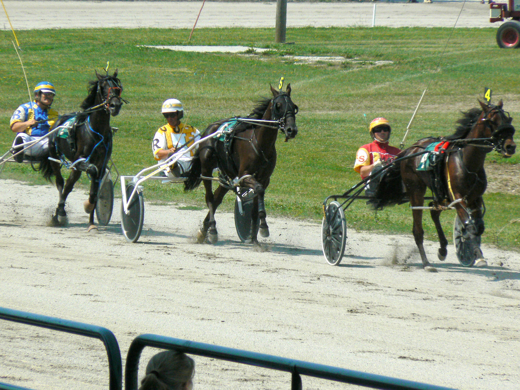 Sulky racing Benny Mazur: "I still don't fully understand the harness racing betting system. Number 3, not pictured, won the race."